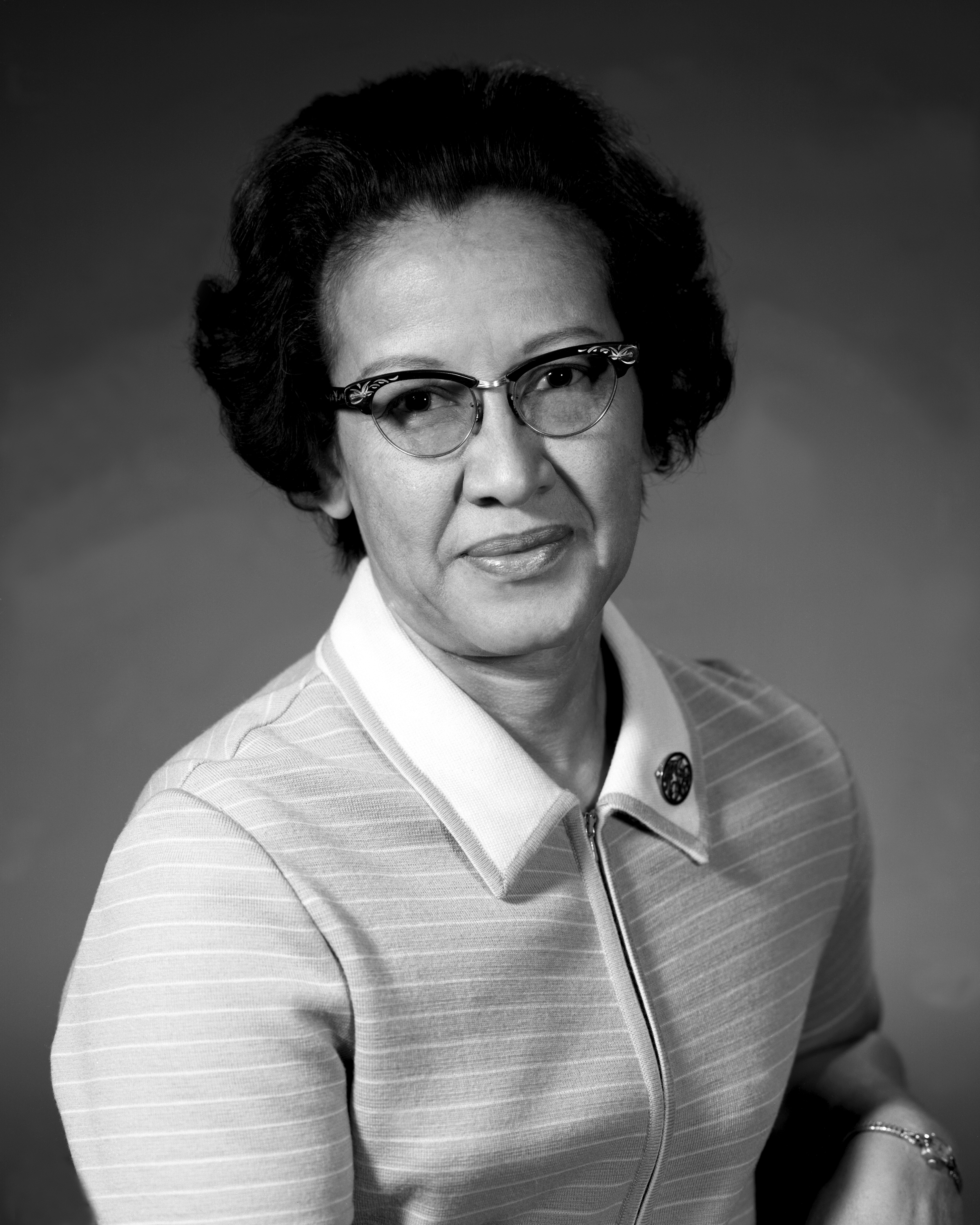 NASA human computers